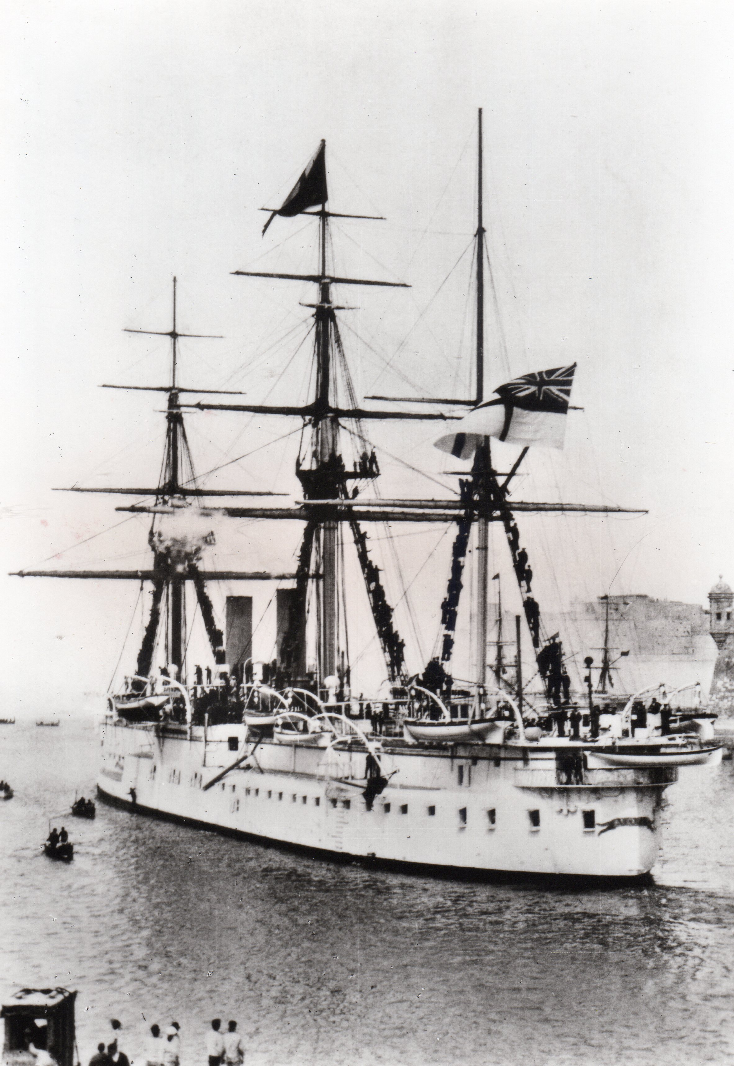 HMS Alexandra (1875) at Malta after 1886 when she had been painted white at the request of HRH the Duke of Edinburgh whose flag she wears.